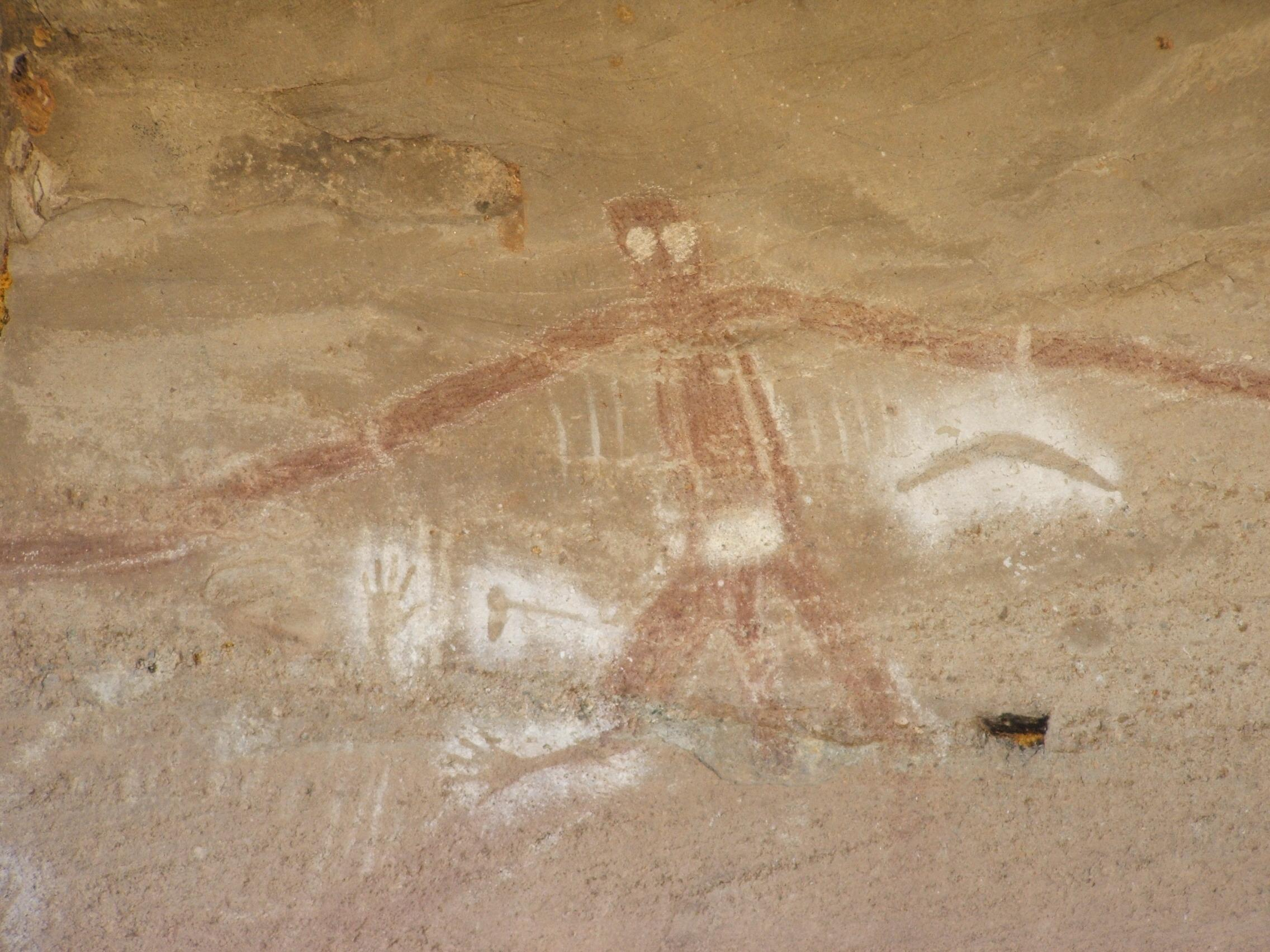 This is a picture taken by Wright.T, in March 2007 It shows an Aboriginal sacred site, with a fifty thousand year old cave painting of Biamie, an Aboriginal Mythology Creator God. Biamie was a powerful male god, and several things in the picture emphasize this, for example, the white ochre circle around the figures navel, the white armbands and the outlines of tools generally associated with males, like the stone axe and the hunting boomerang. His large arms signify bringing together, like a hug, and the seven white lines under his armpits symbolize the seven nearby tribes.